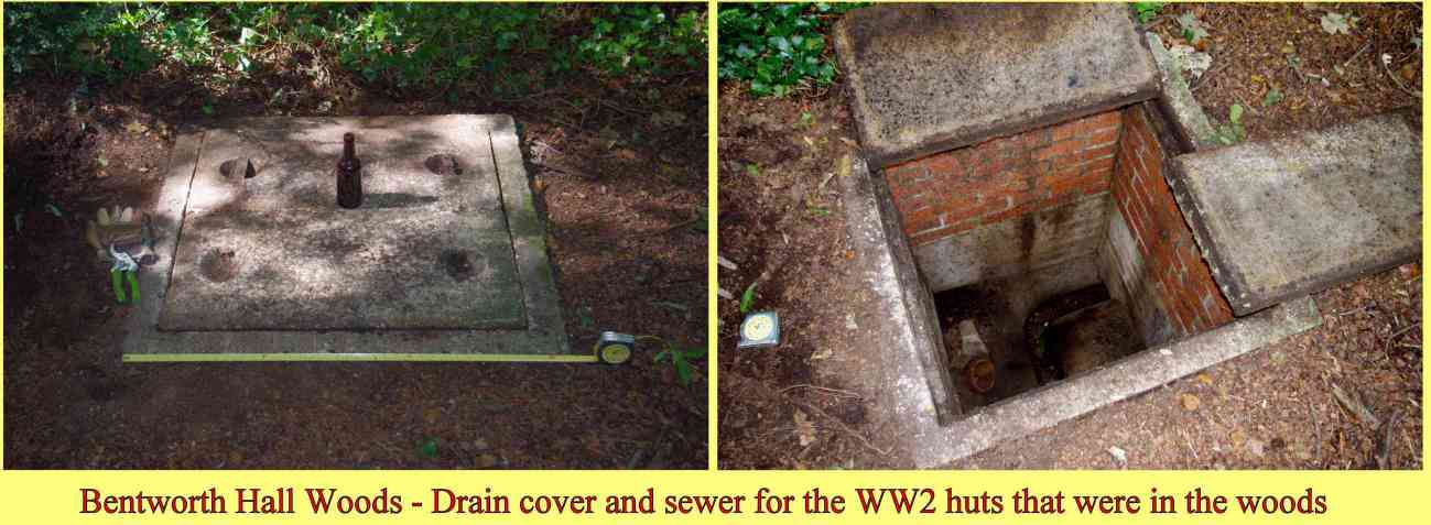 photo